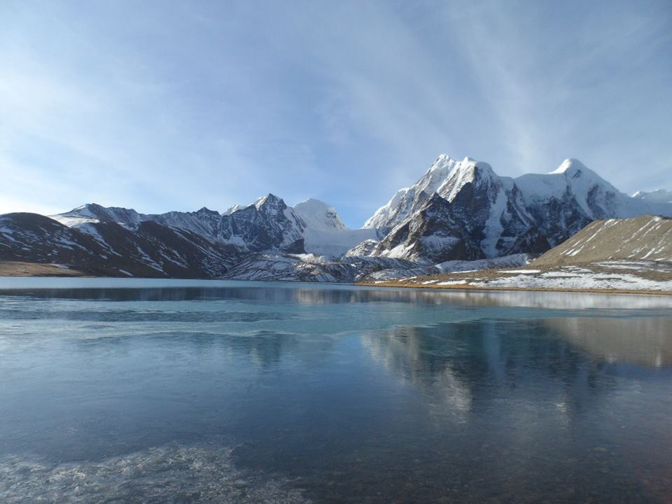 dongmar lake